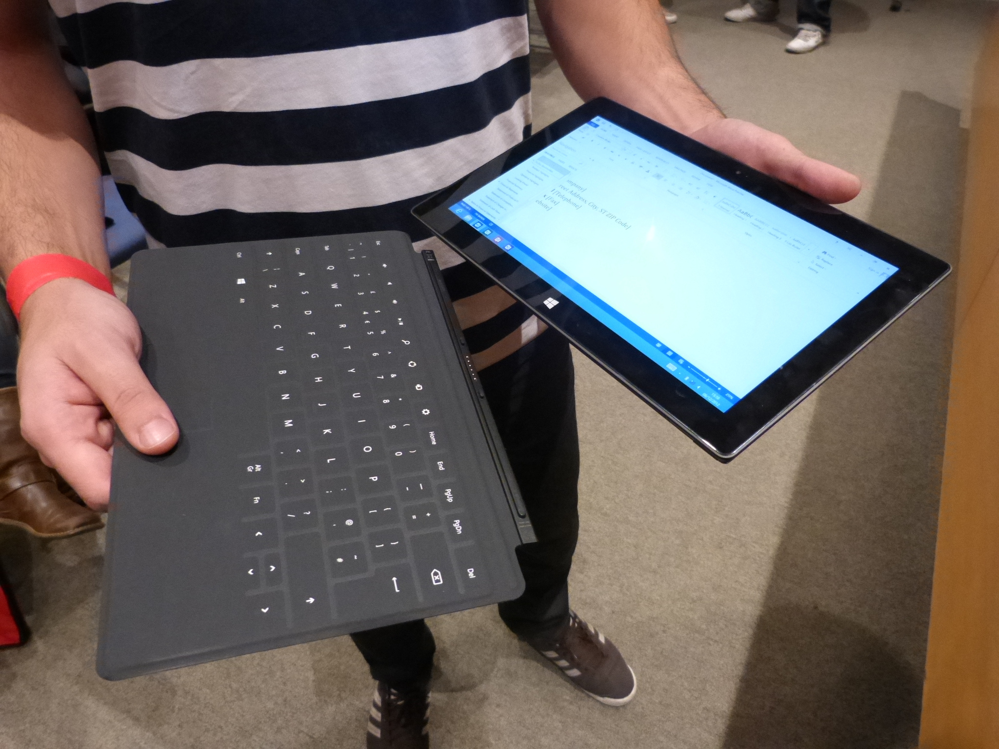 Microsoft Surface keyboard snapping